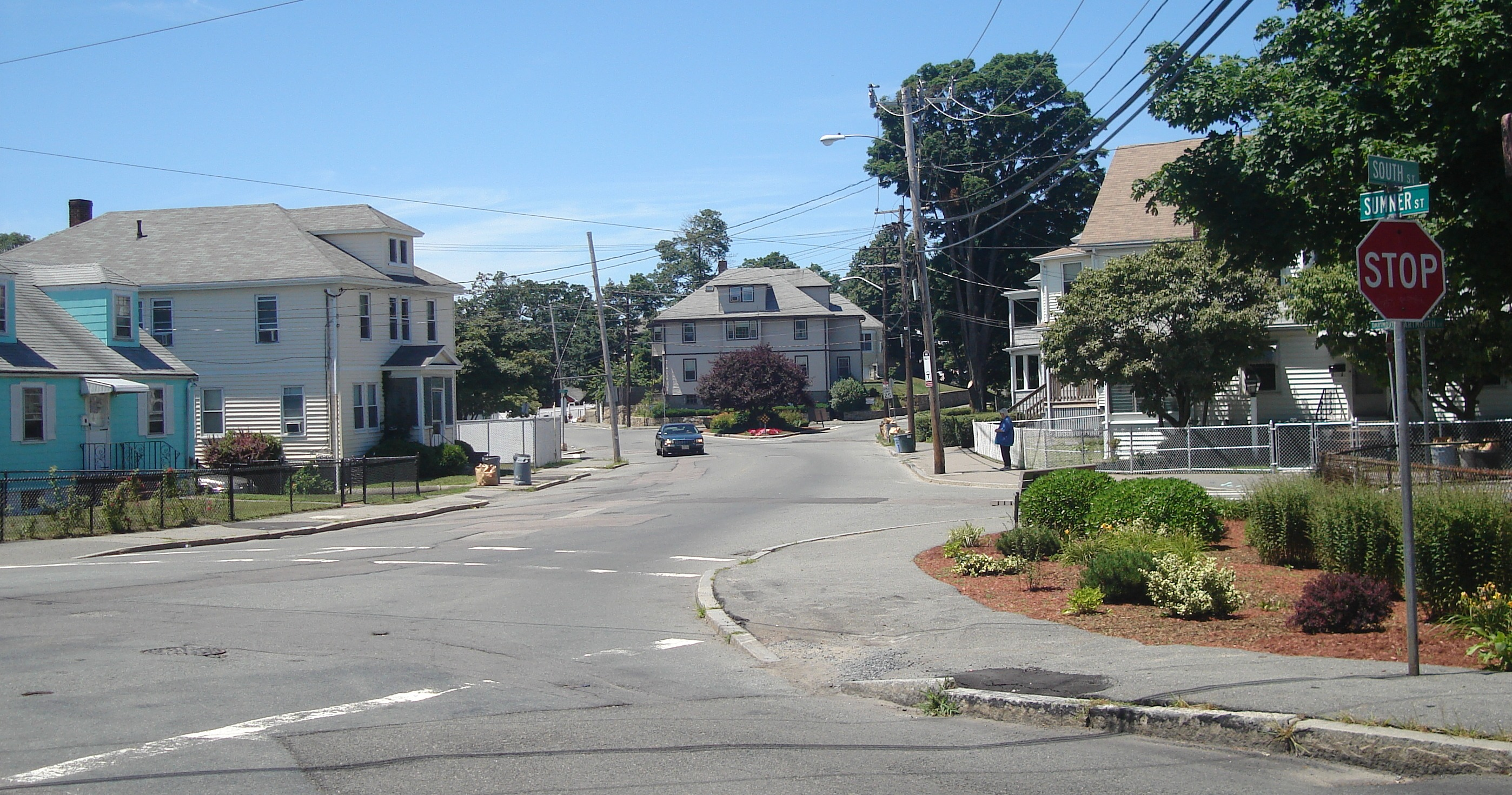 View of the intersection of Sumner Street and South Street in the Quincy Point neighborhood of Quincy, Massachusetts.